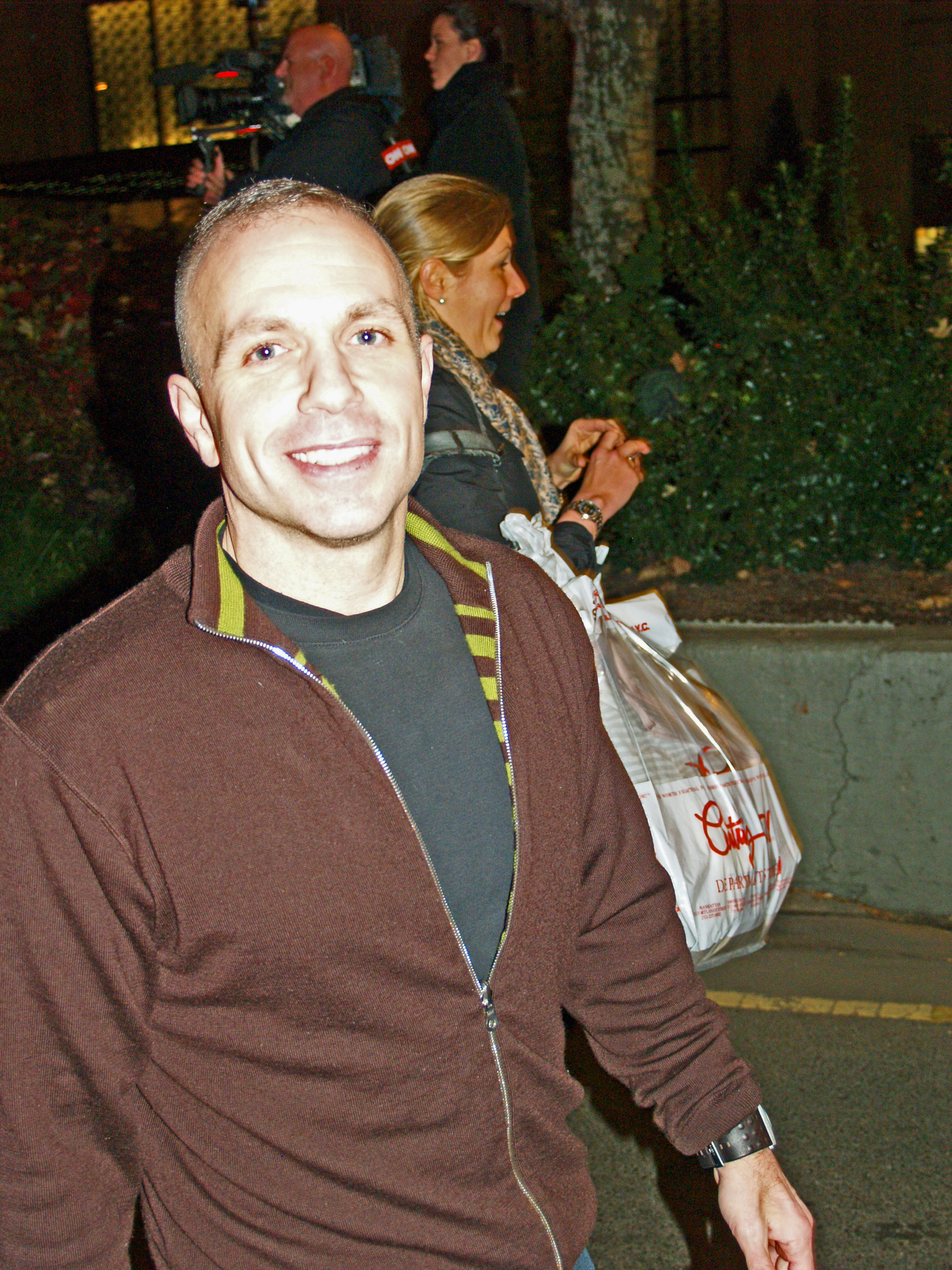 Michelangelo Signorile at the New York City protest outside the Lincoln Center Mormon temple he helped organize in protest of California Proposition 8.